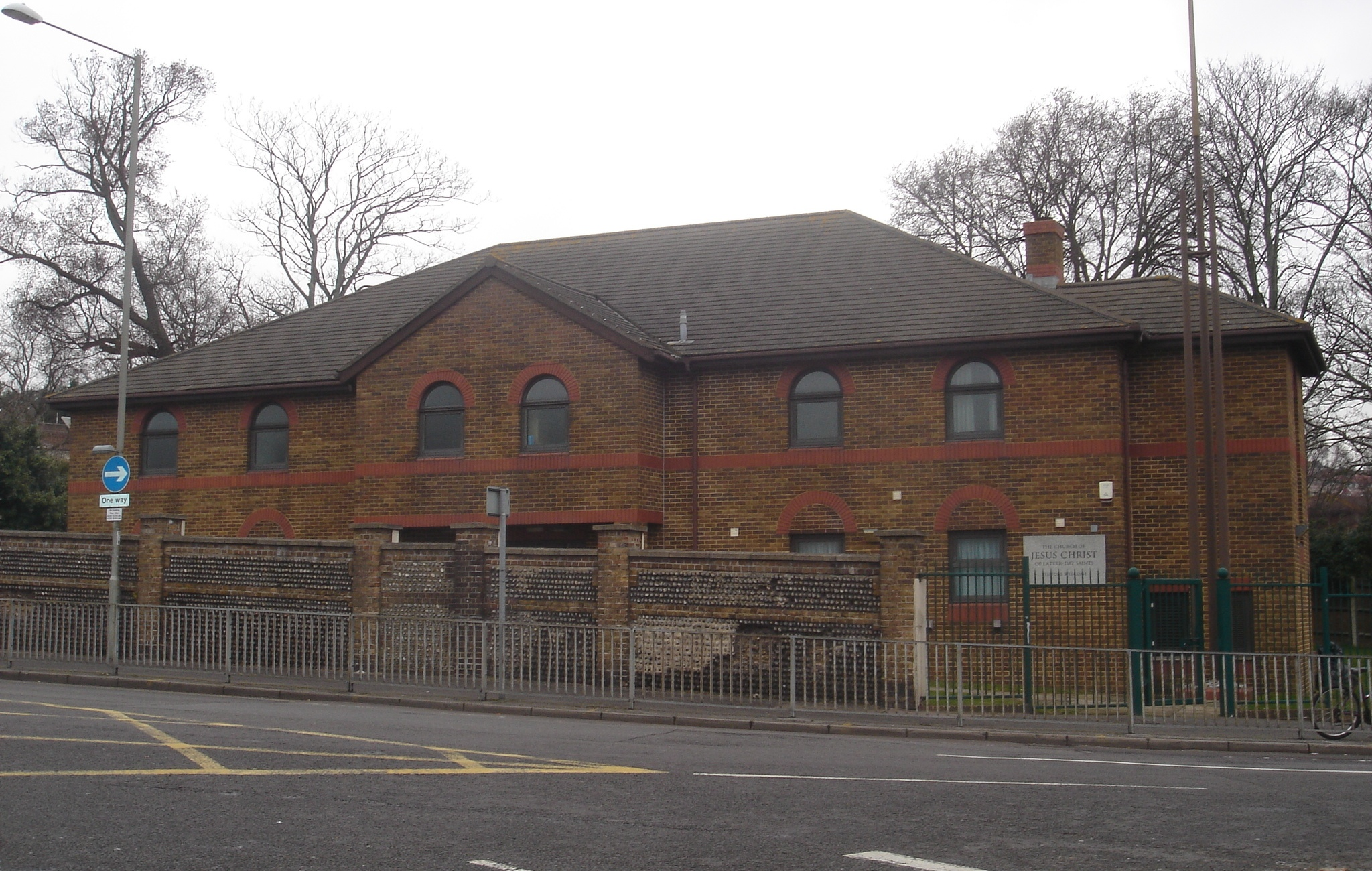 A meetinghouse of The Church of Jesus Christ of Latter-day Saints, Lewes Road/Hollingdean Road junction (Vogue Gyratory), Brighton, City of Brighton and Hove, England.